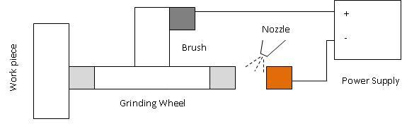 Basic ELID setup